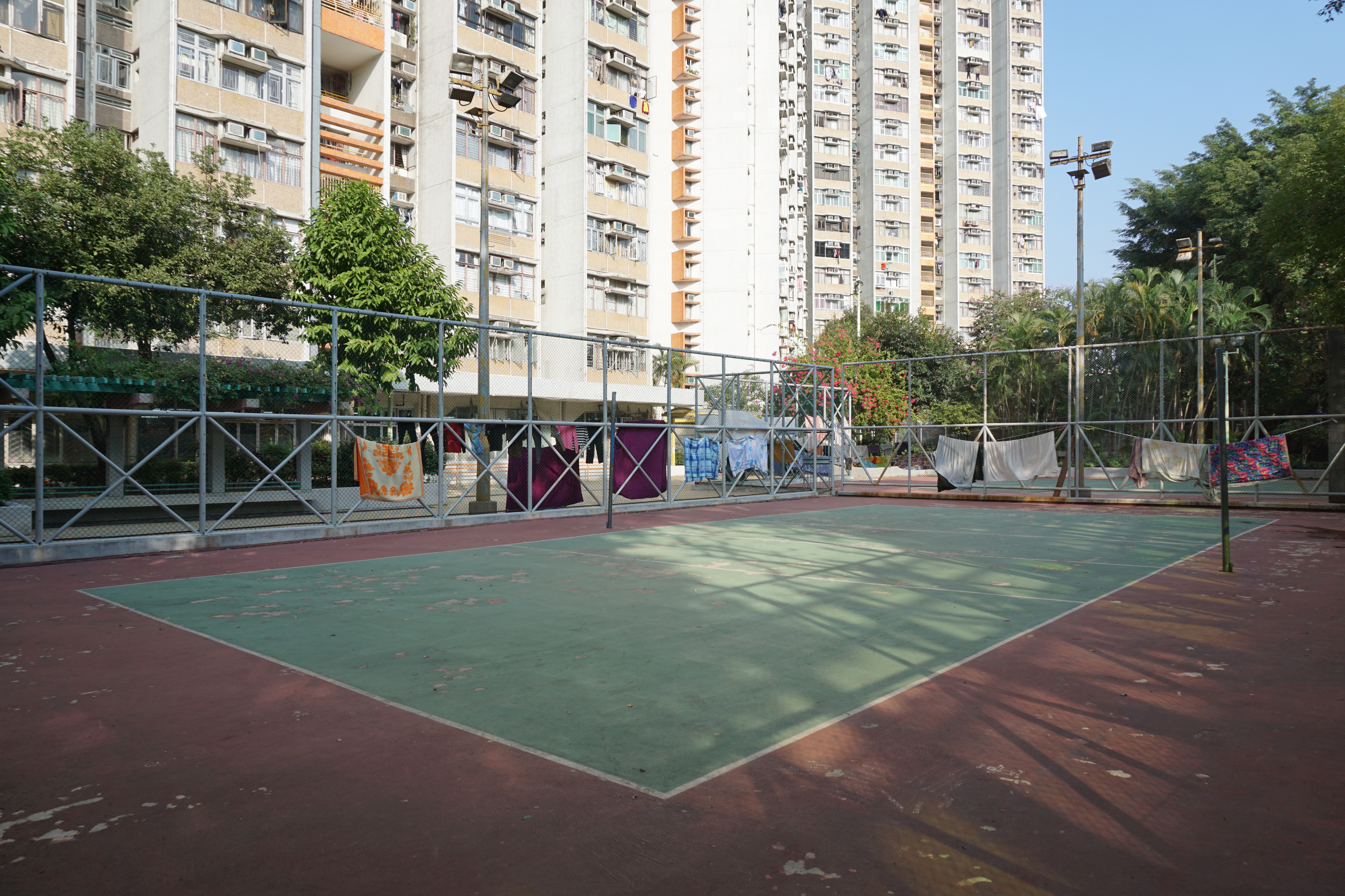 Cheung On Estate in Tsing Yi, Hong Kong.